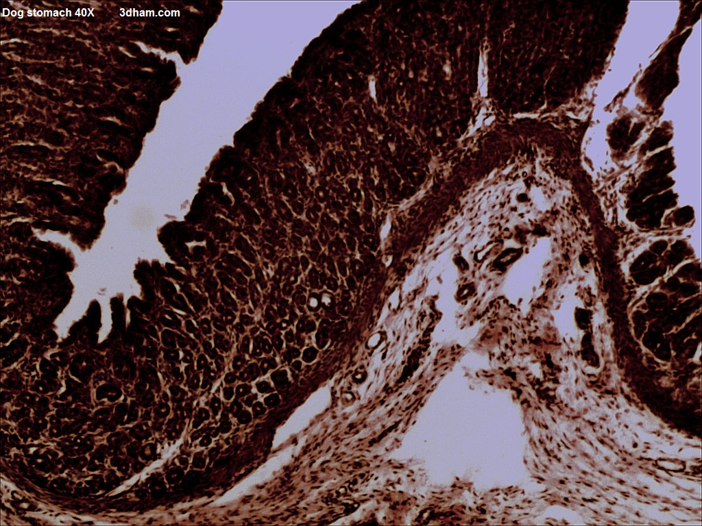 Dog stomach Magnified 40 times